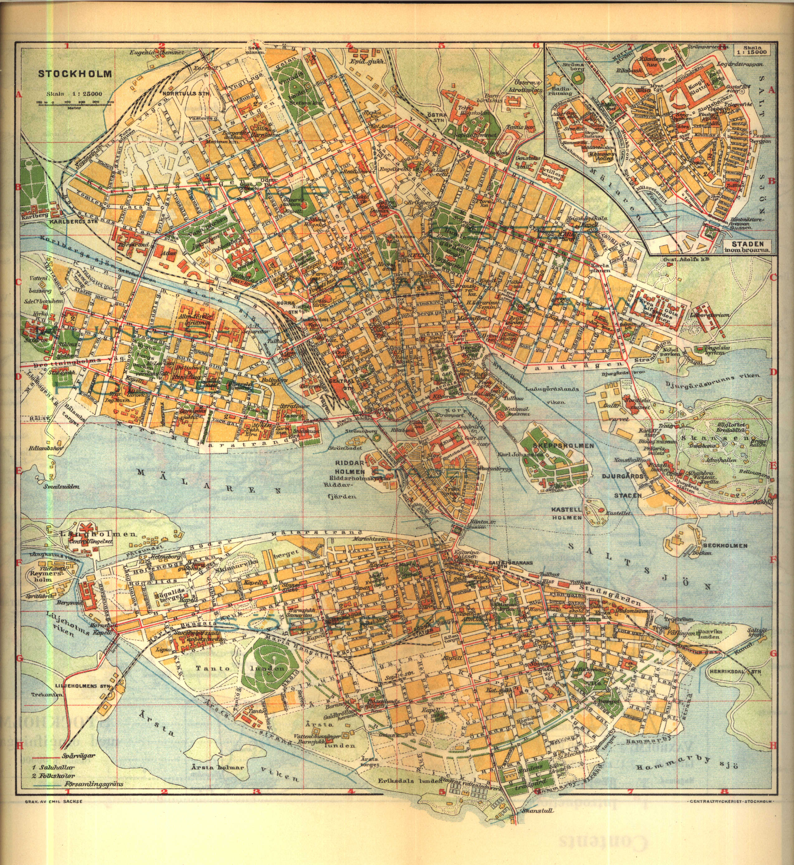 Map of downtown Stockholm in the 1910s